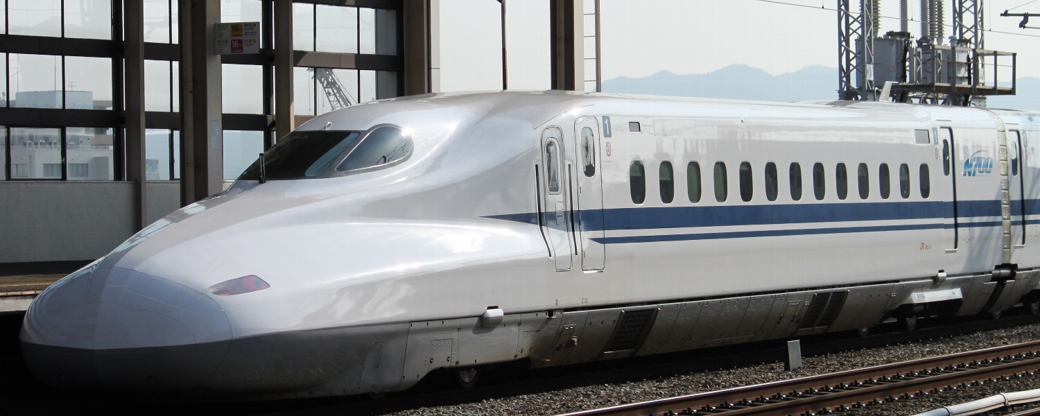 Shinkansen series N700(783-13) in Himeji Station